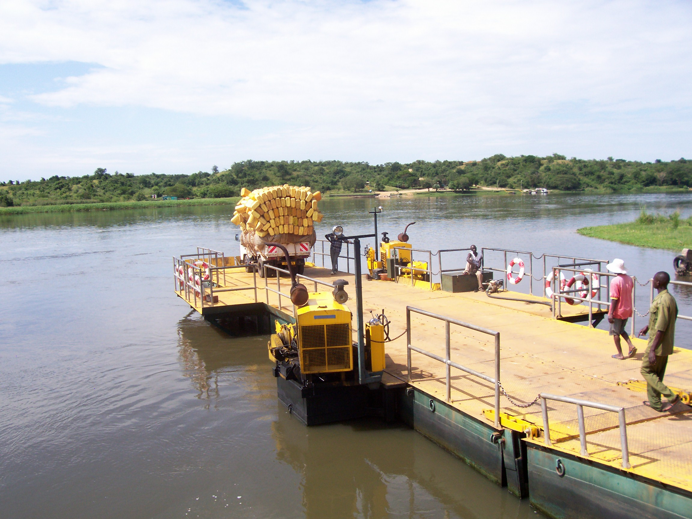 This is a photo of a river boat crossing the Nile in Uganda near Murchison Falls National Park. It was taken in 2006.